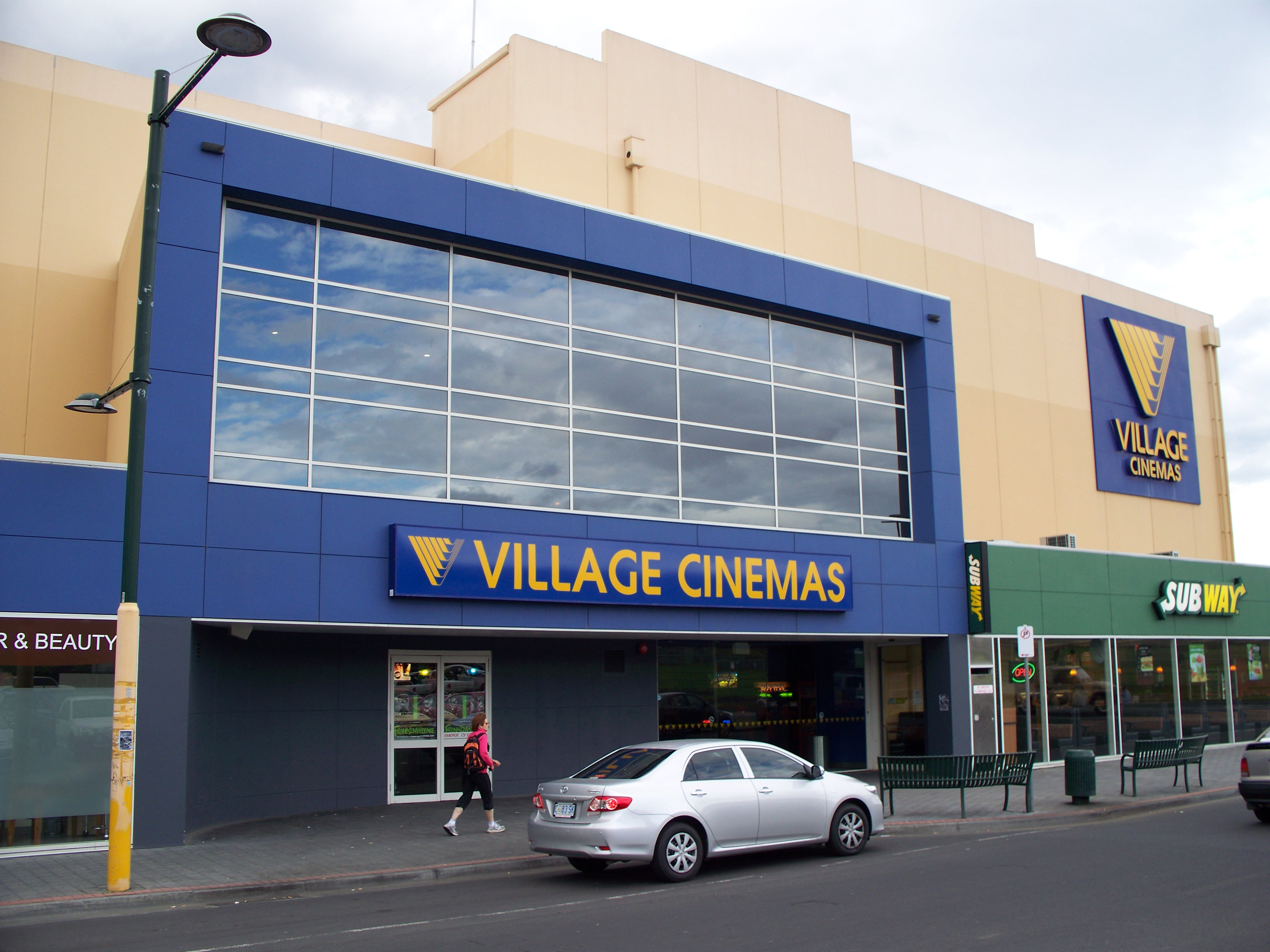 A four-screen, free standing Village Cinema in Glenorchy, a northern suburb of Hobart.